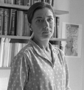 Ruth Bader Ginsburg, photographed in 1977 ©Lynn Gilbert